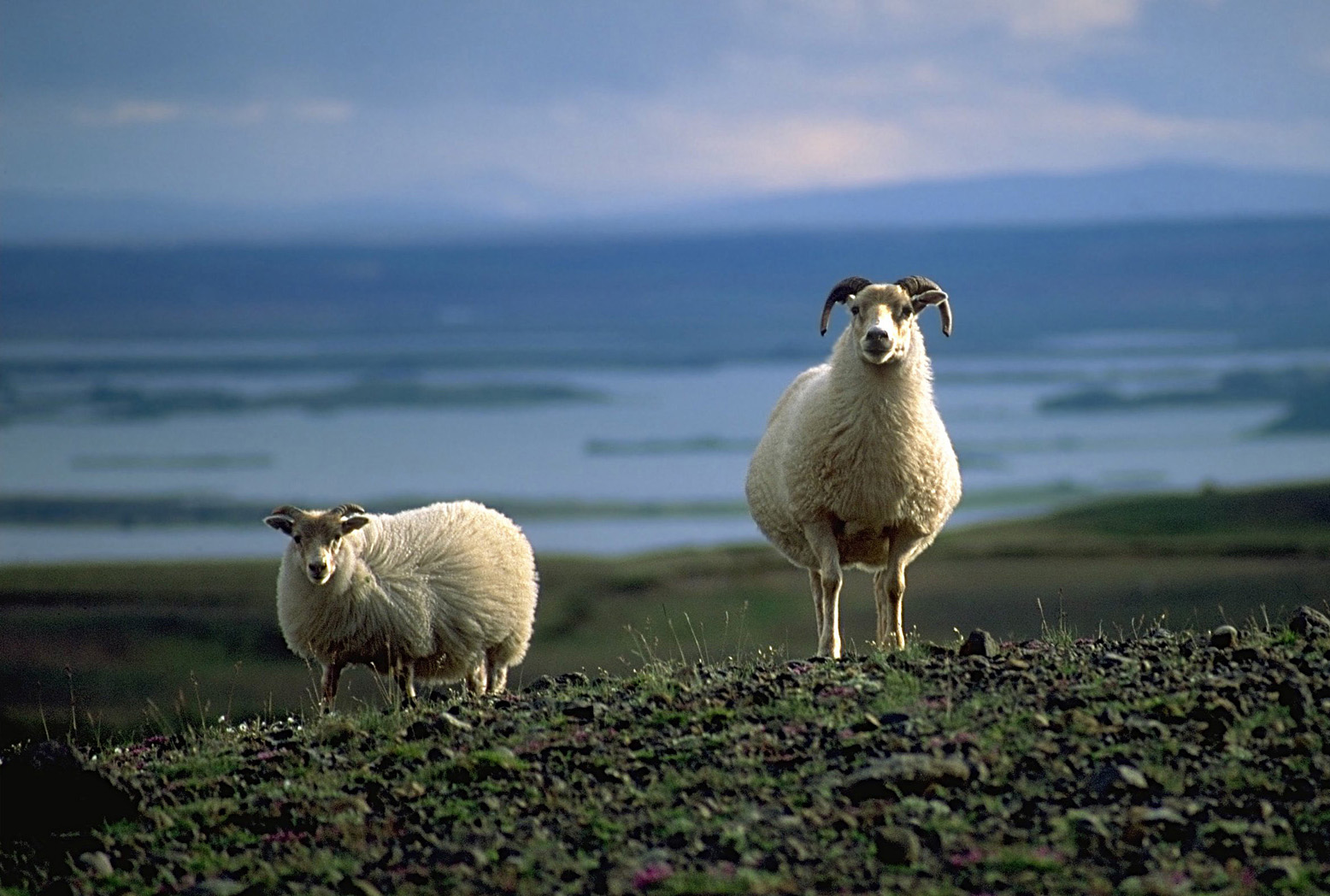 Sheep (Ovis aries) near lake Mývatn, Iceland Photo was taken using the following technique: Film: Fuji Velvia Lens: 70-300 (at 300mm) Filter: Body: Minolta Dynax 600si Support: none Image with Information in English Bild mit Informationen auf Deutsch